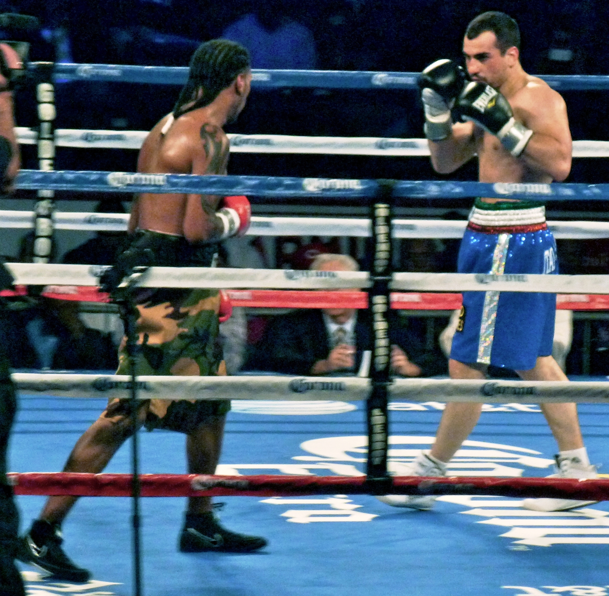 Phil Lo Greco (on the right) vs. Daniel Sostre at the Boardwalk Hall, Atlantic City, New Jersey on November 17, 2012.